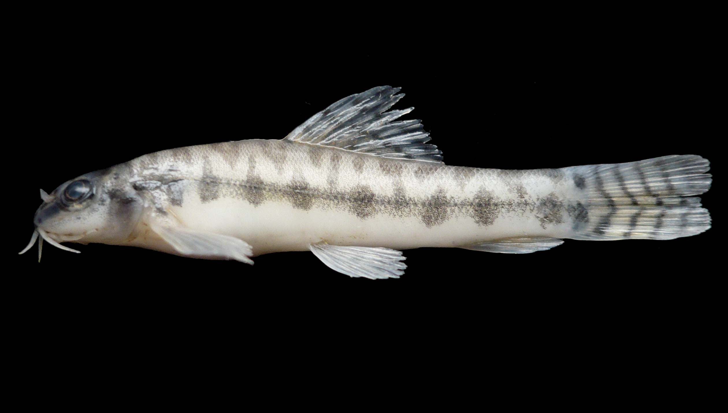 Acanthocobitis zonalternans measuring 29 mmSL; January 2010; Upper Moei River, Tak Province, Thailand